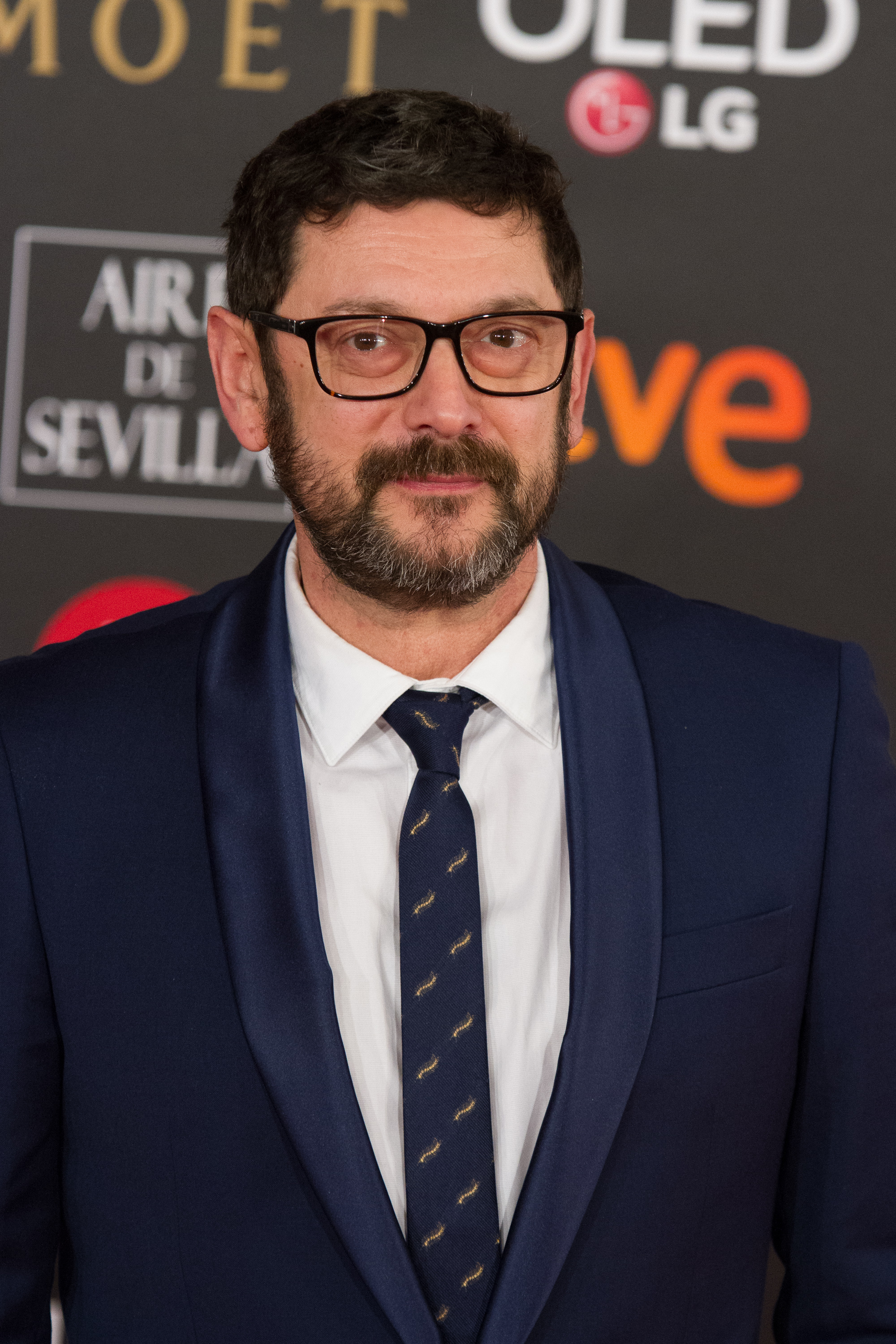 32nd Goya Awards, 2018.